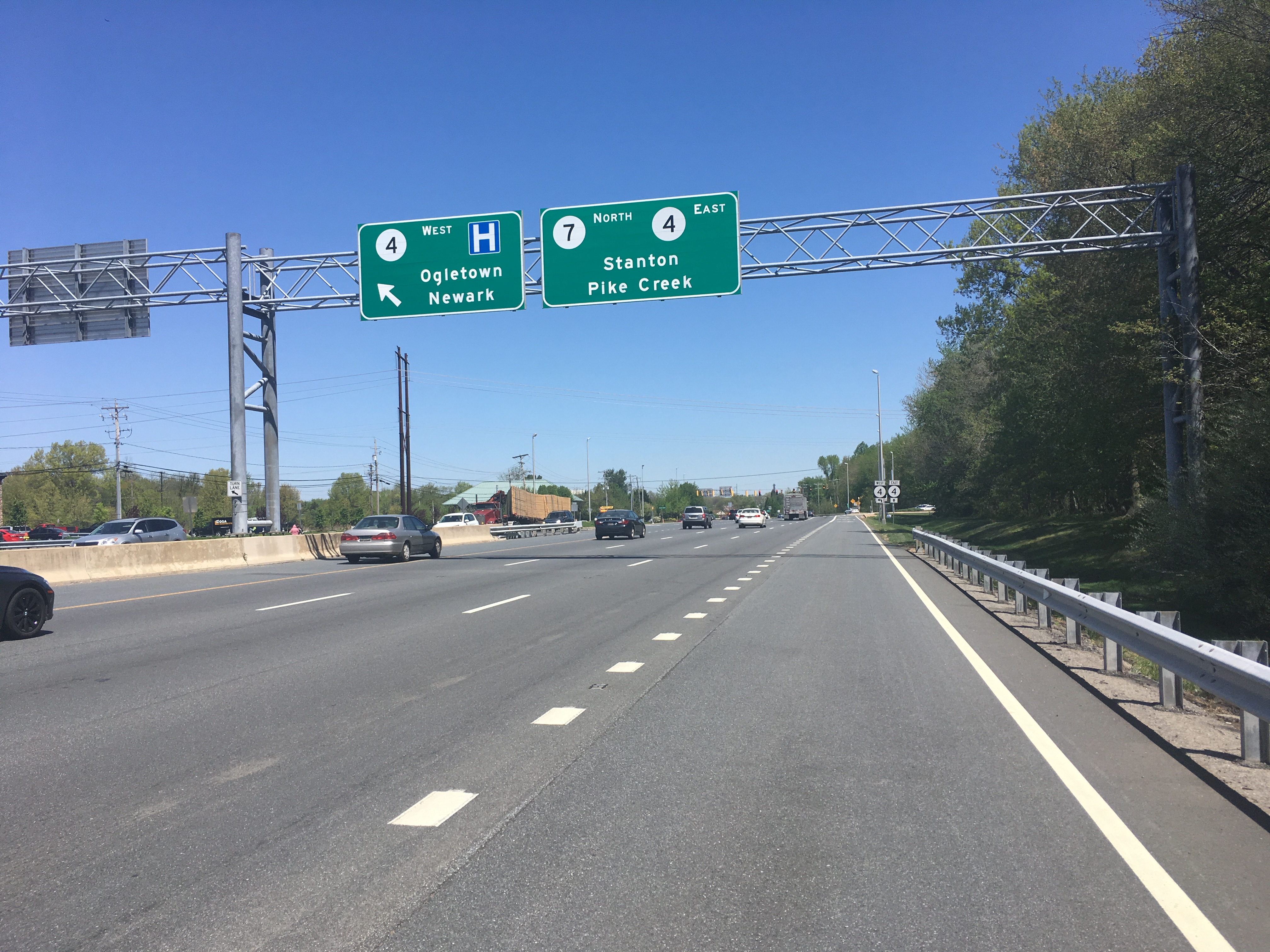 Northbound Delaware Route 7 (Stanton Christiana Road) at the intersection with Delaware Route 4 (Ogletown Stanton Road) near Christiana, Delaware. Delaware Route 4 turns north to run concurrent with Delaware Route 7 at this intersection.